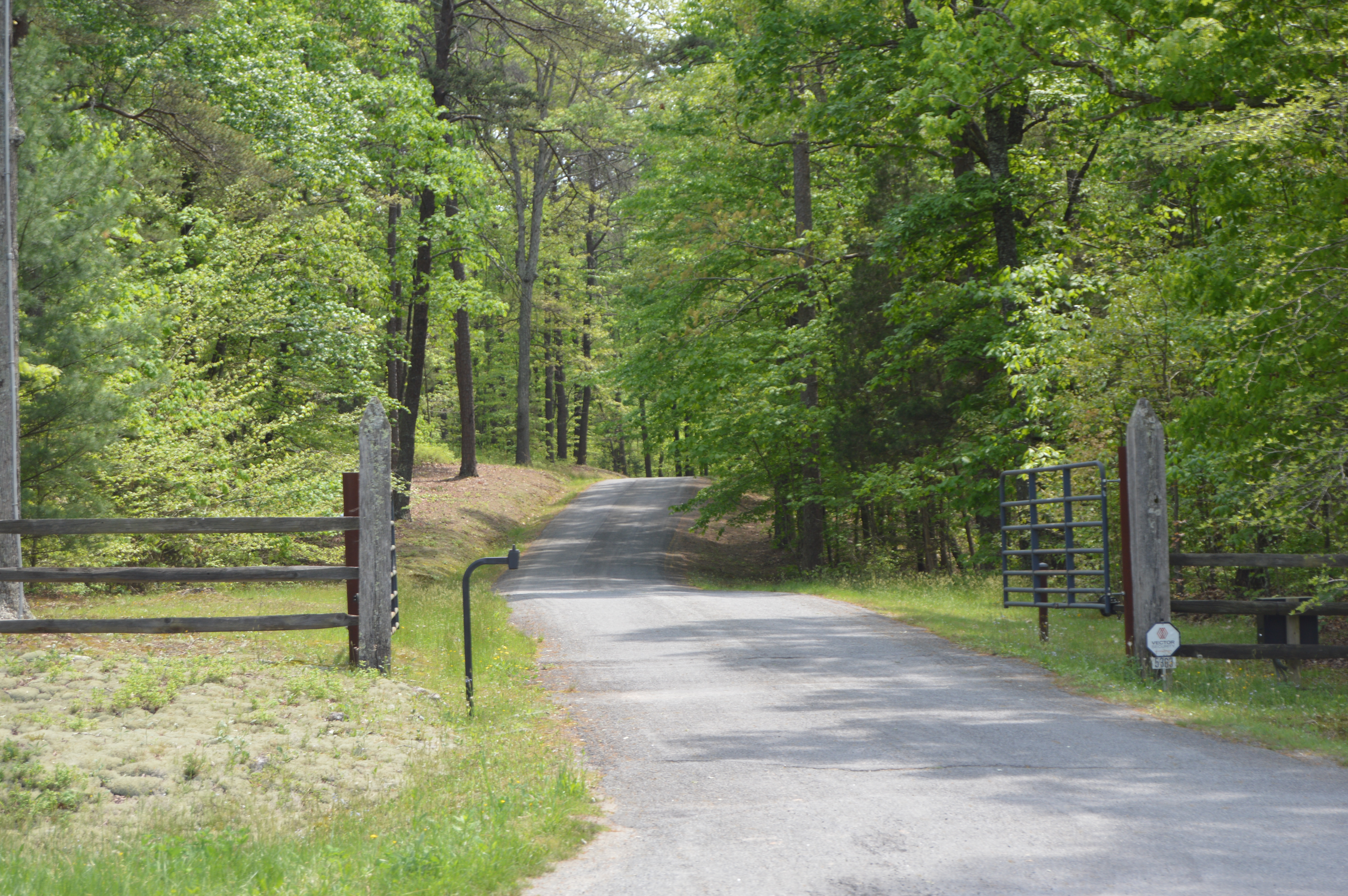 Driveway to the Bellair estate, located on Secretarys Road south of Charlottesville in Albemarle County, Virginia, United States. The estate is listed on the National Register of Historic Places.